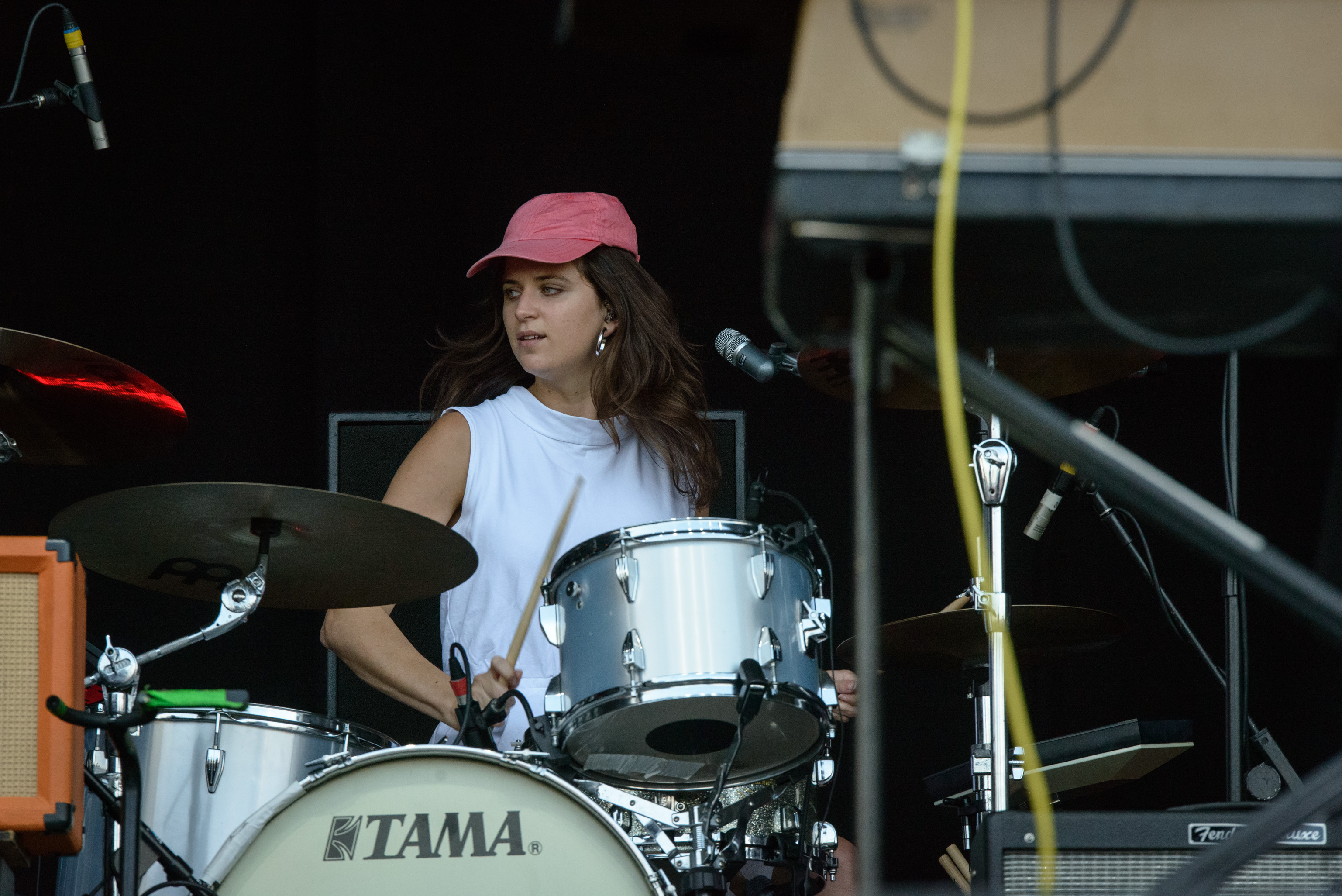 Hot Chip @ Lollapalooza 2015